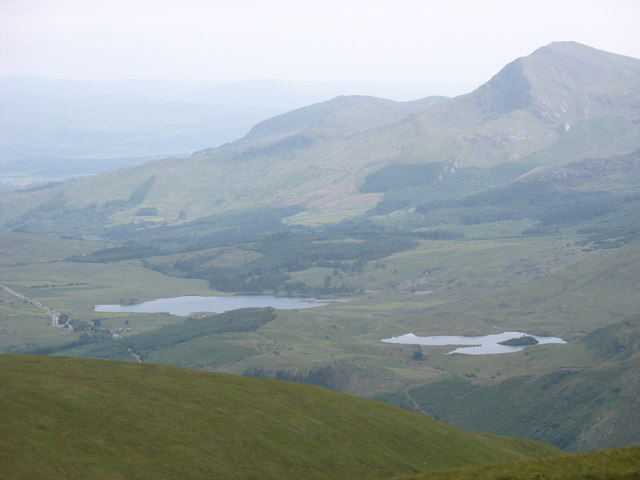 Nant Colwyn from Moel Eilio. The photo shows to the two source lakes of the Colwyn, Llyn-y-Dywarchen and llyn-y-Gadair, Beddgelert Forest, and the two peaks of Moel Hebog and Moel Ddu.